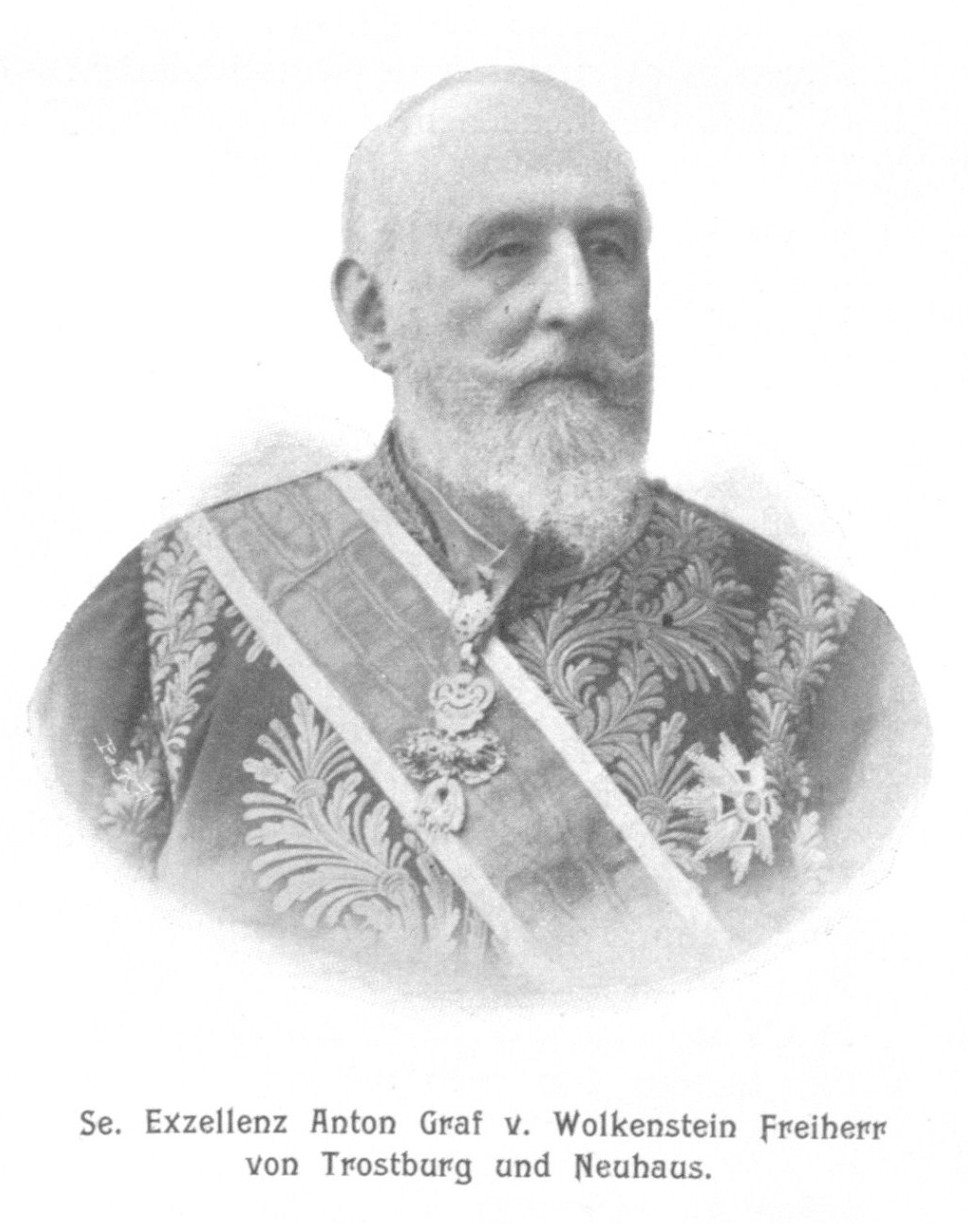 Portrait of Anton von Wolkenstein-Trostburg (1832-1913), Austrian diplomat